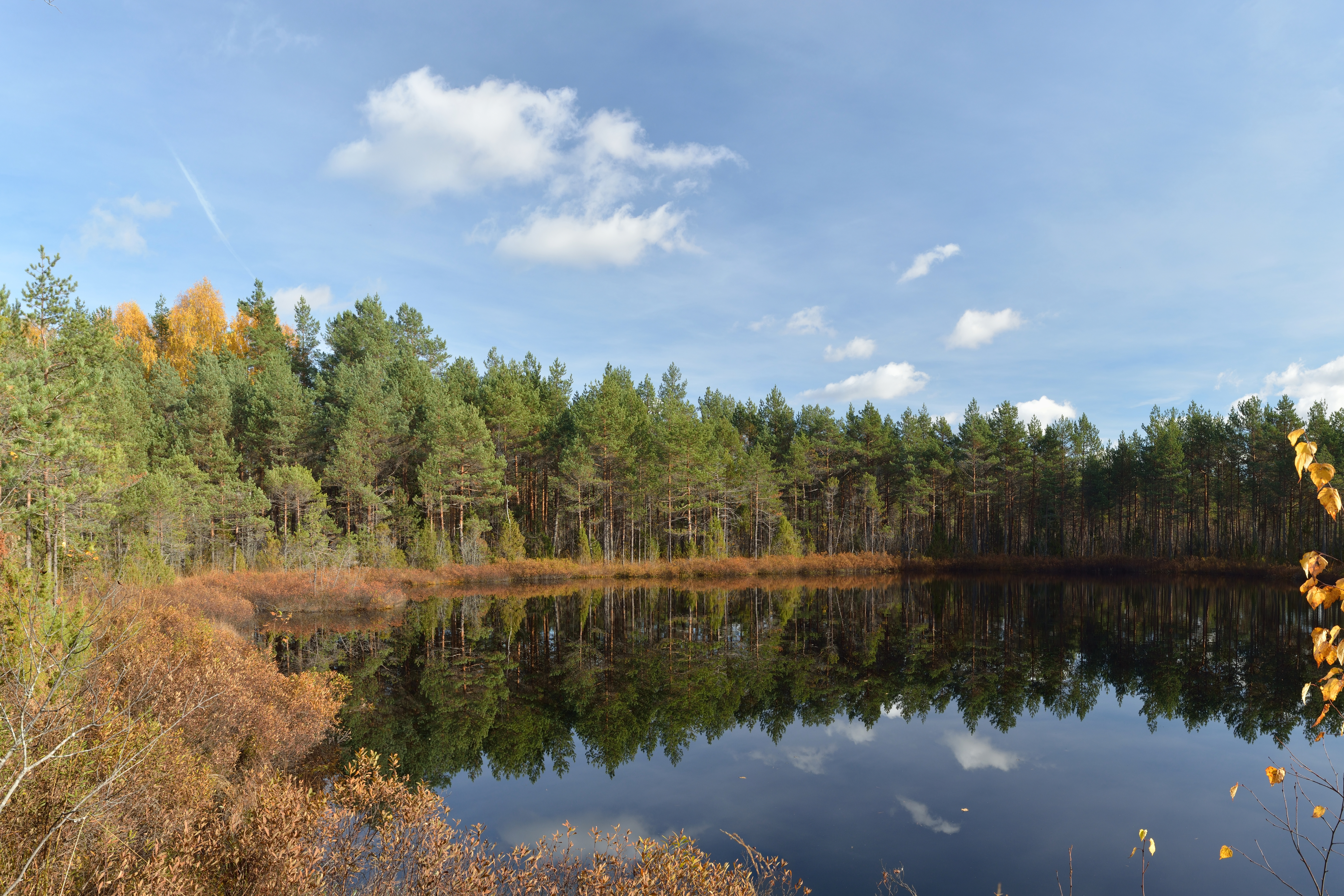 Lake Väike Laugasjärv, Kurtna Landscape Reserve. Surface area 0.2 ha.